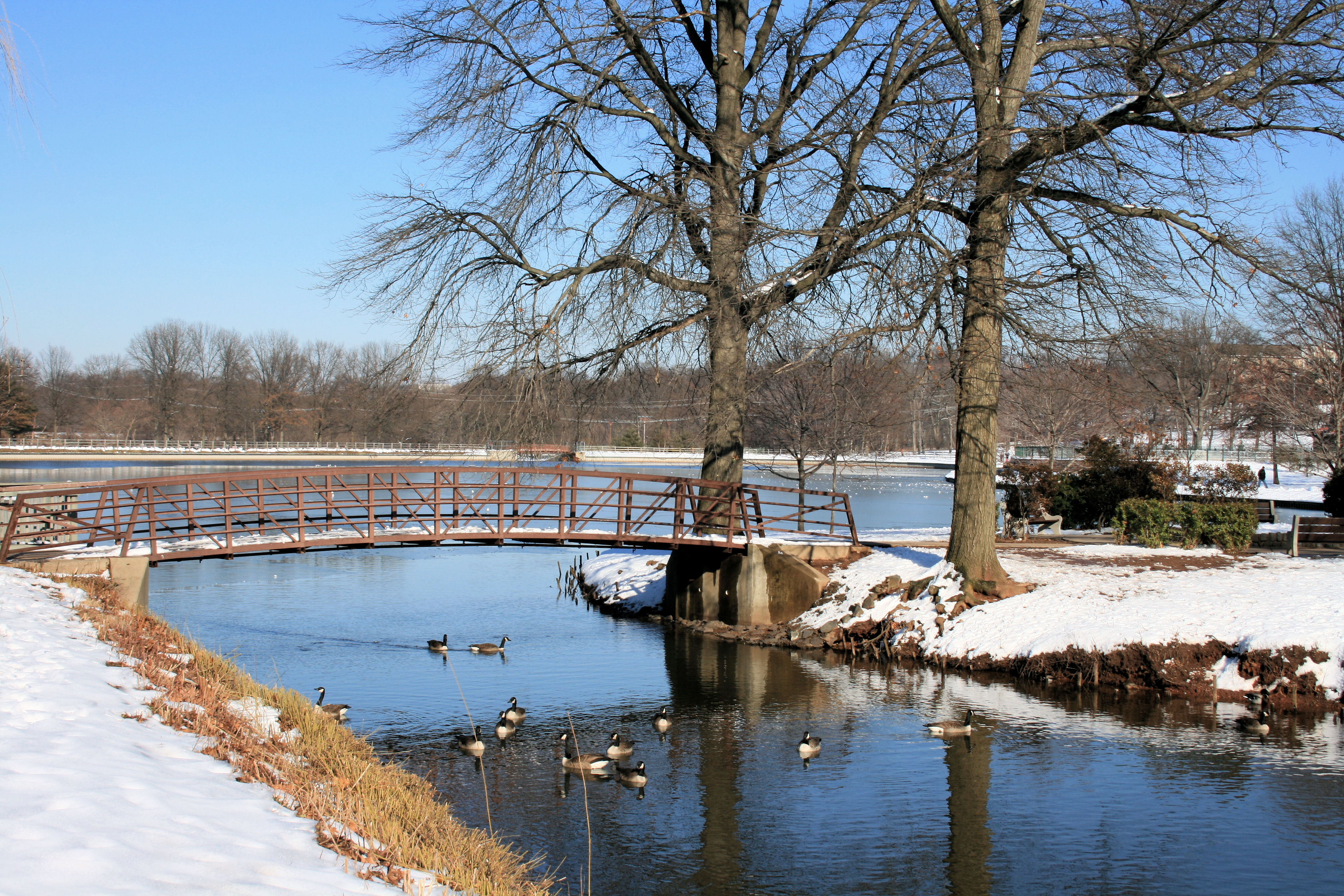 Winter in Roosevelt Park, Edison, New Jersey